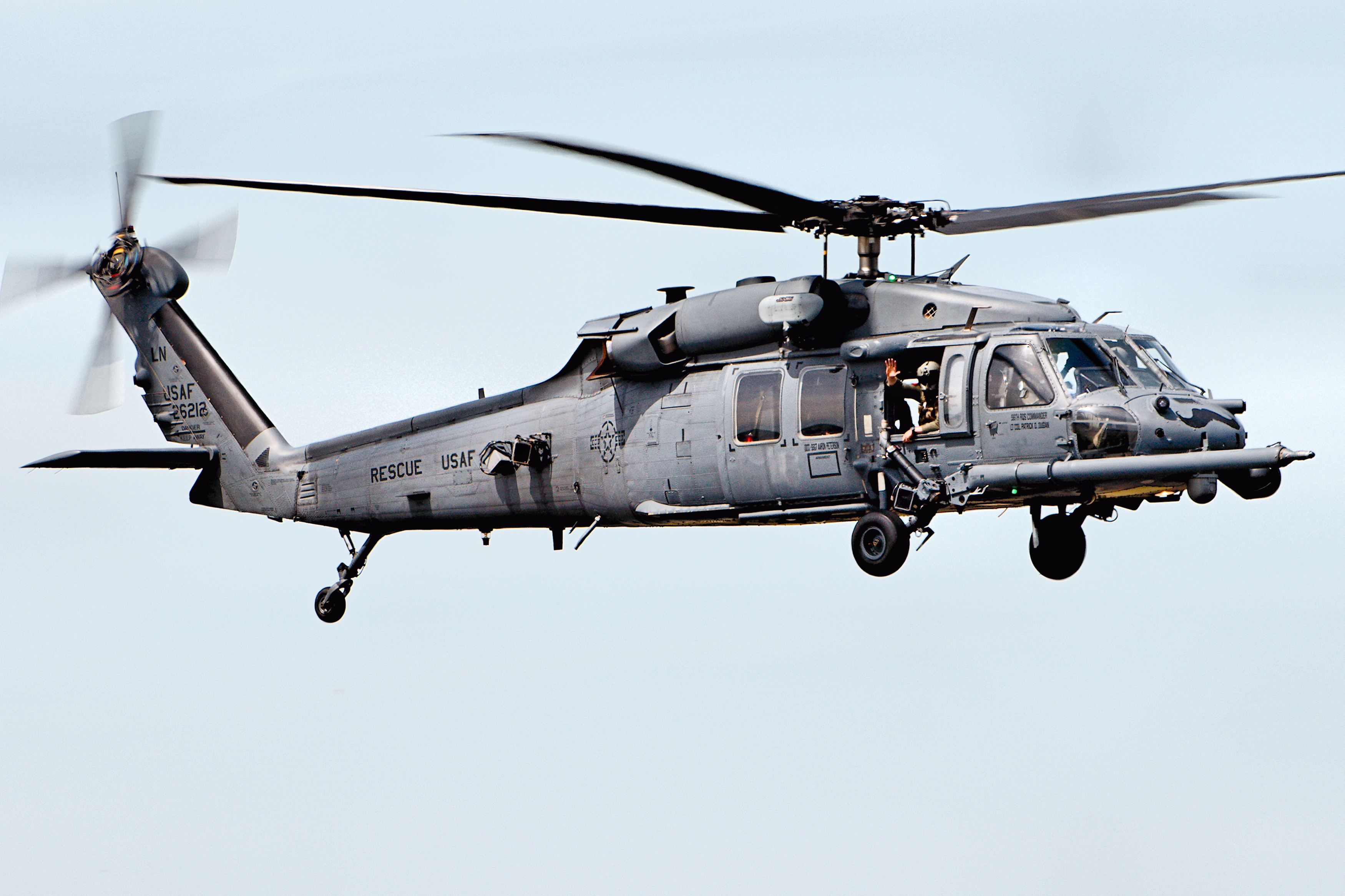 HH-60 Pave Hawk - RIAT 2017